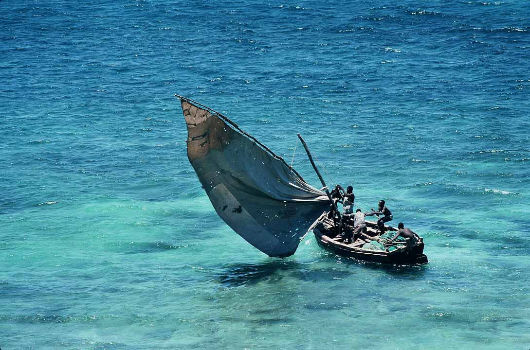 Off the northern coast of Mozambique lies the island the country is named after - Ilha de Moçambique. It was settled in the 1400s by Portuguese explorers. Today, the island is inhabited by local fisherman. This shot captures these men hard at work in the stunning blue waters of the Indian Ocean.